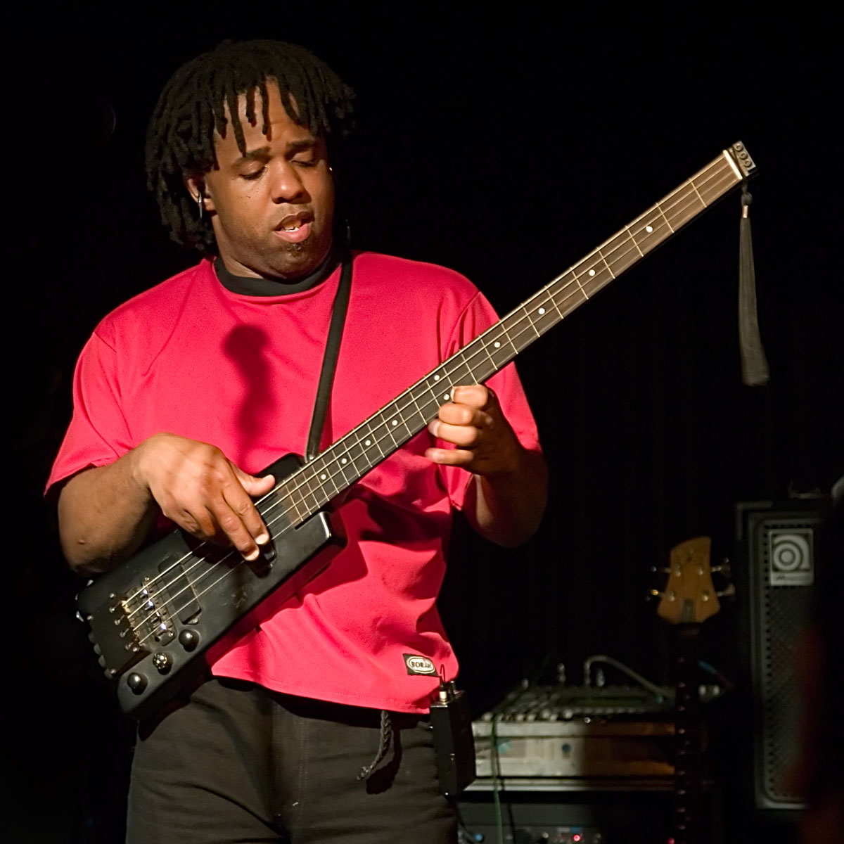 Victor WootenVictor Woorten